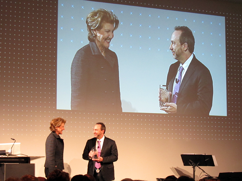 Jimmy Wales receives the Gottlieb Duttweiler Award 2011 in Rüschlikon near Zurich, Switzerland